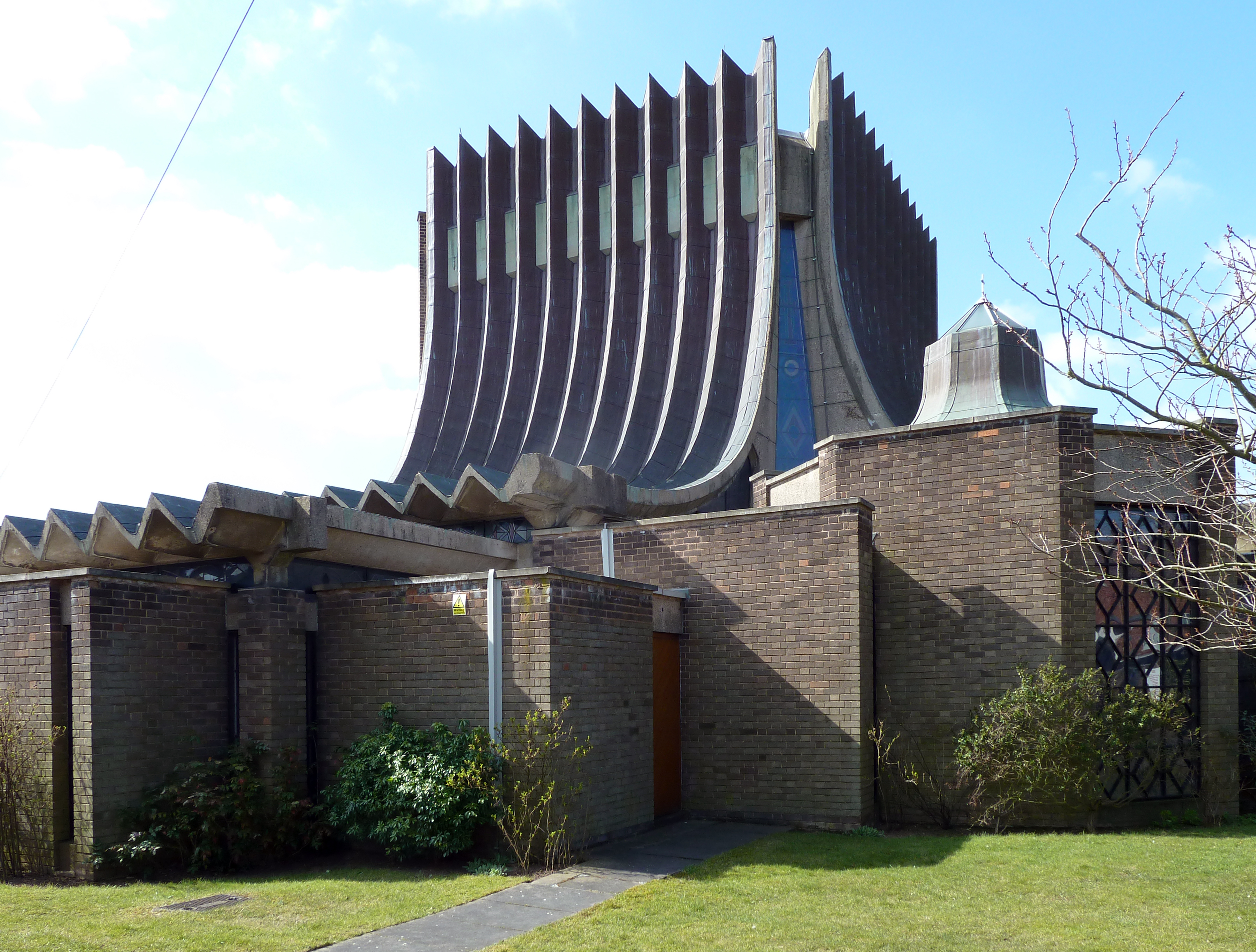 The Church of Our Lady Help of Christians in Sheldon, Birmingham, by architect Richard Gilbert Scott